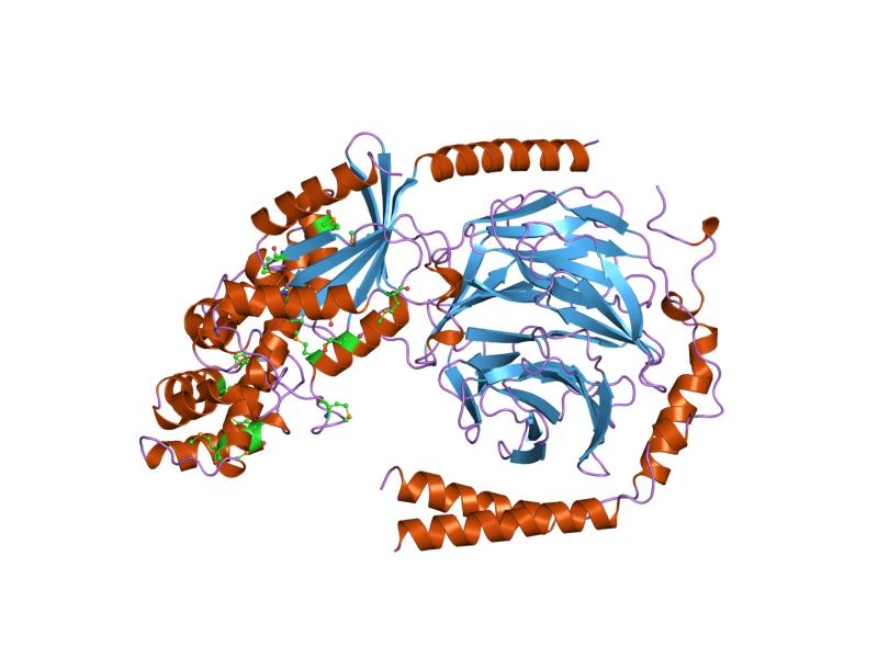 Cartoon representation of the molecular structure of protein registered with 1got code.